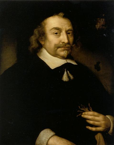 Cornelis Bicker (1591-1654); mayor of Amsterdam